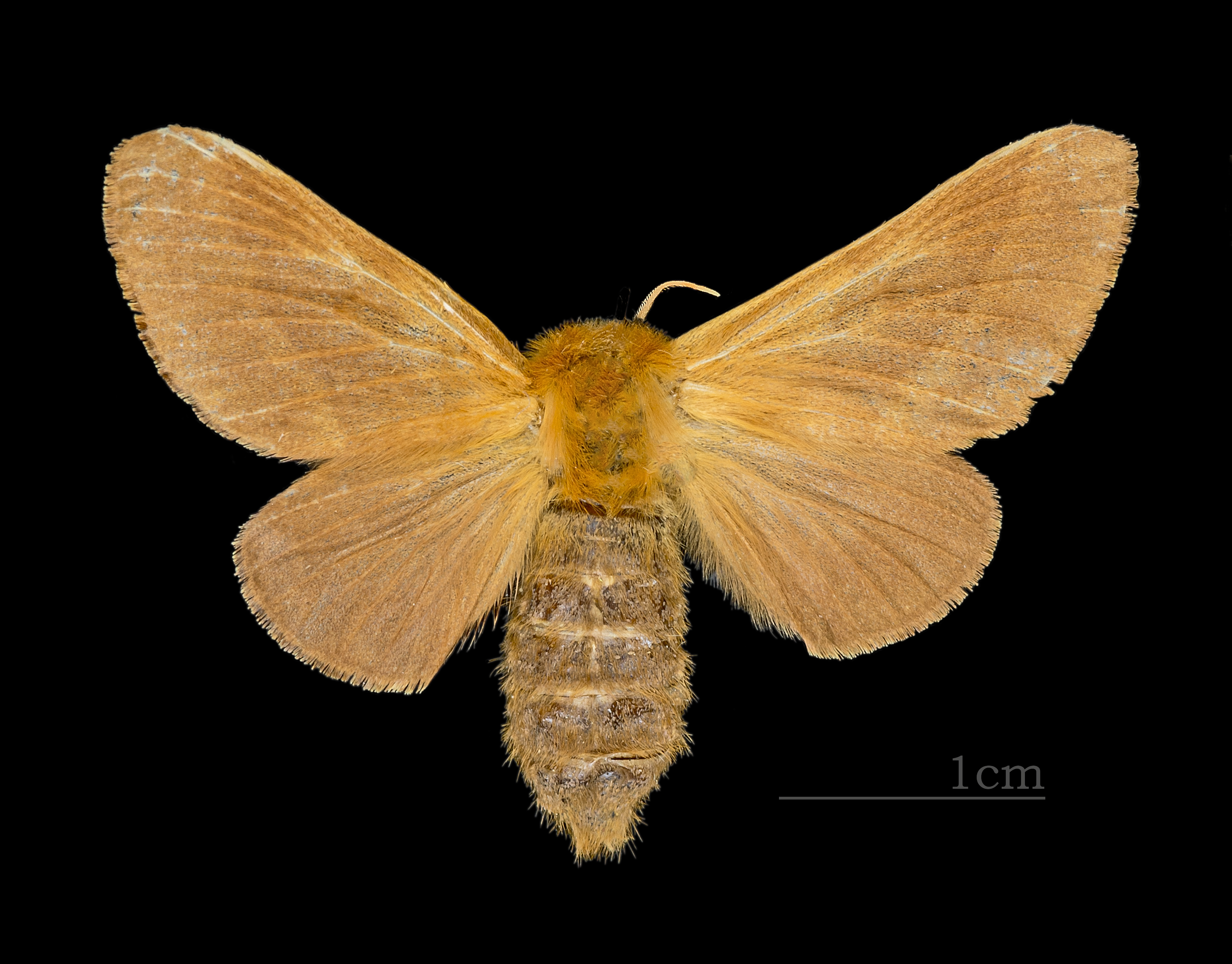 Malacosoma franconicum - Dorsal side